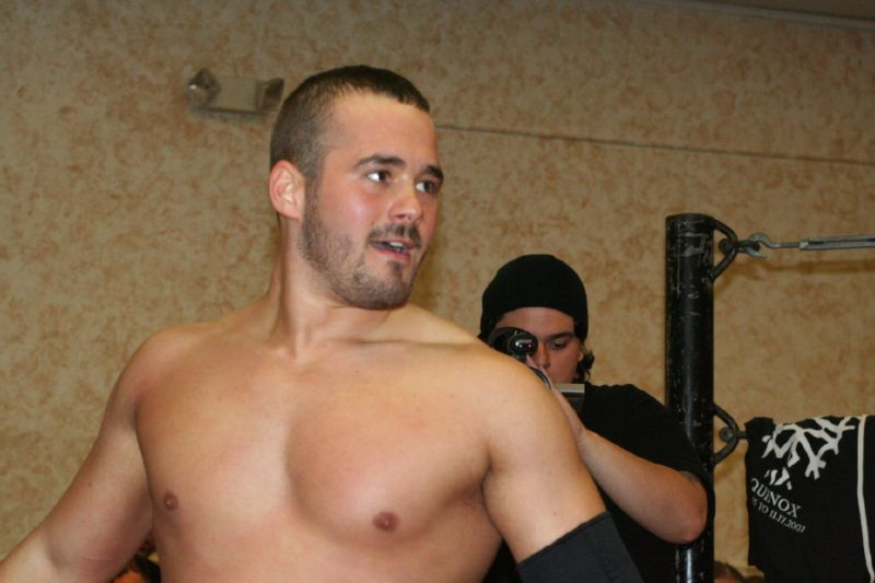 Professional wrestler Jimmy Olsen at a Chikara show on May 24, 2008